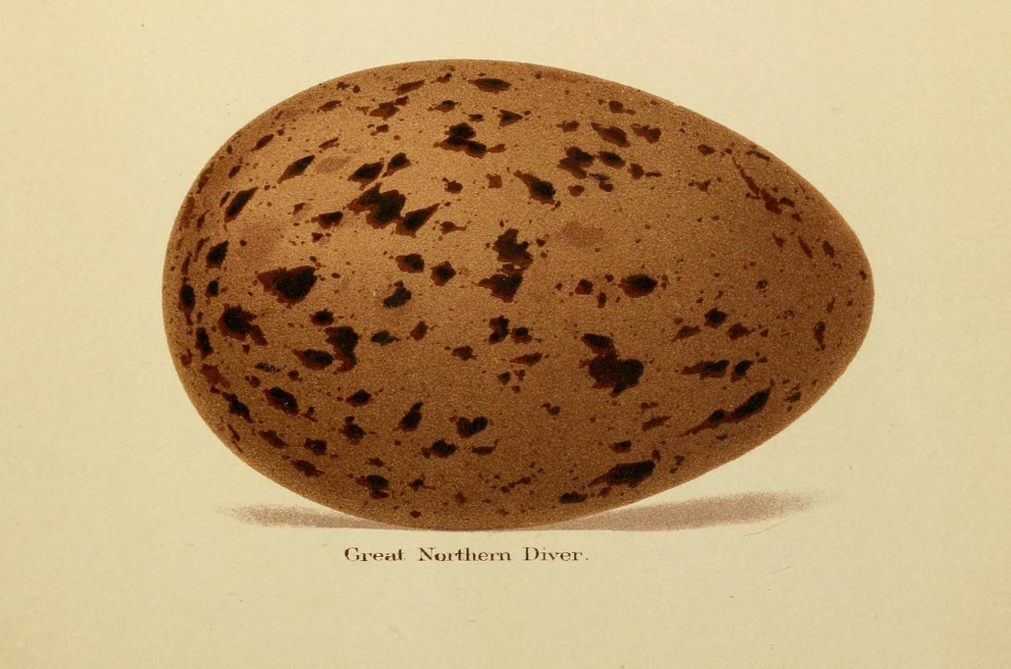 Coloured Figures of the Eggs of British Birds - Seebohm Great Northern Loon Gavia immer